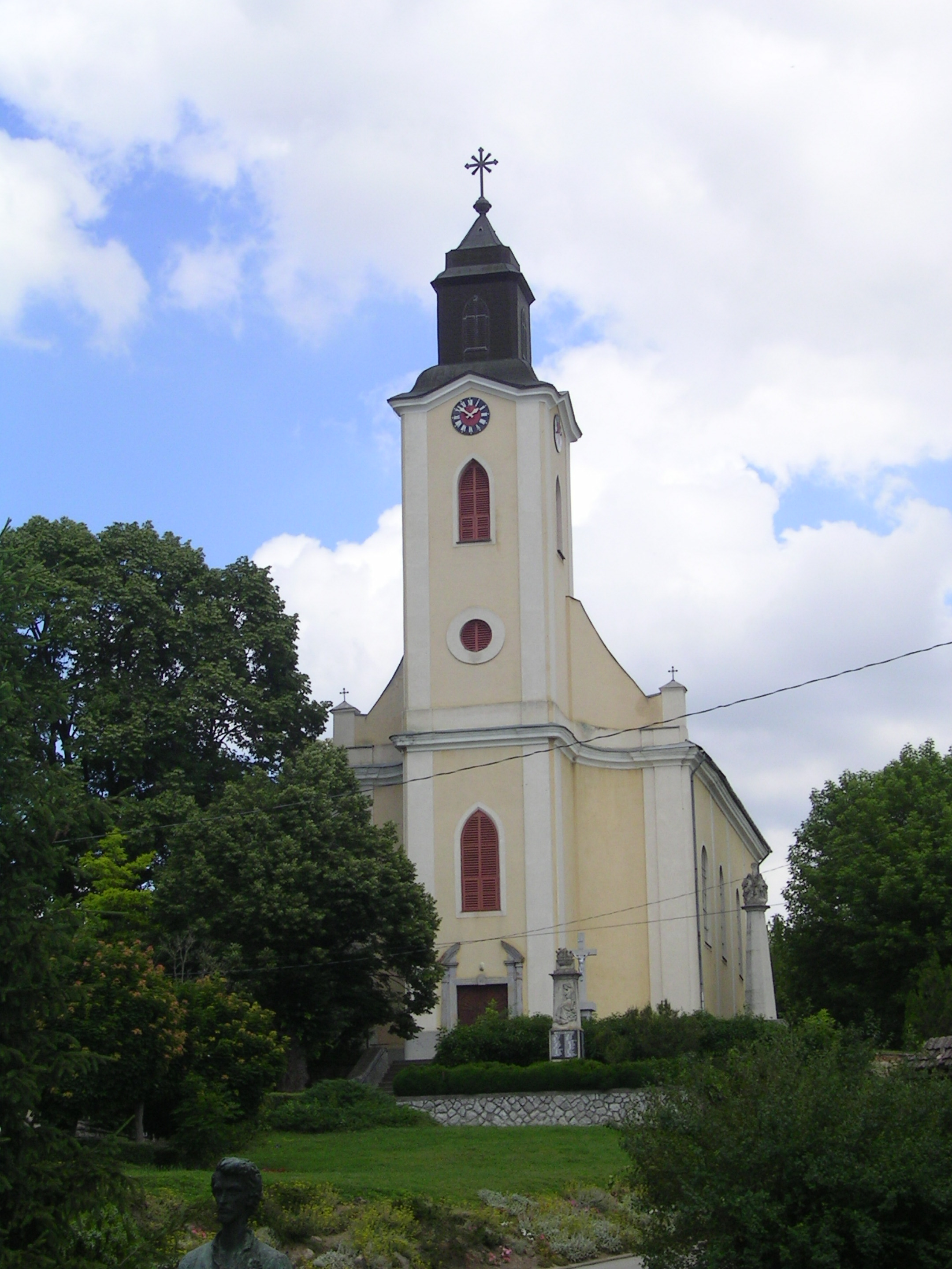 Kisboldogasszony Roman catholic church in Himesháza, Hungary